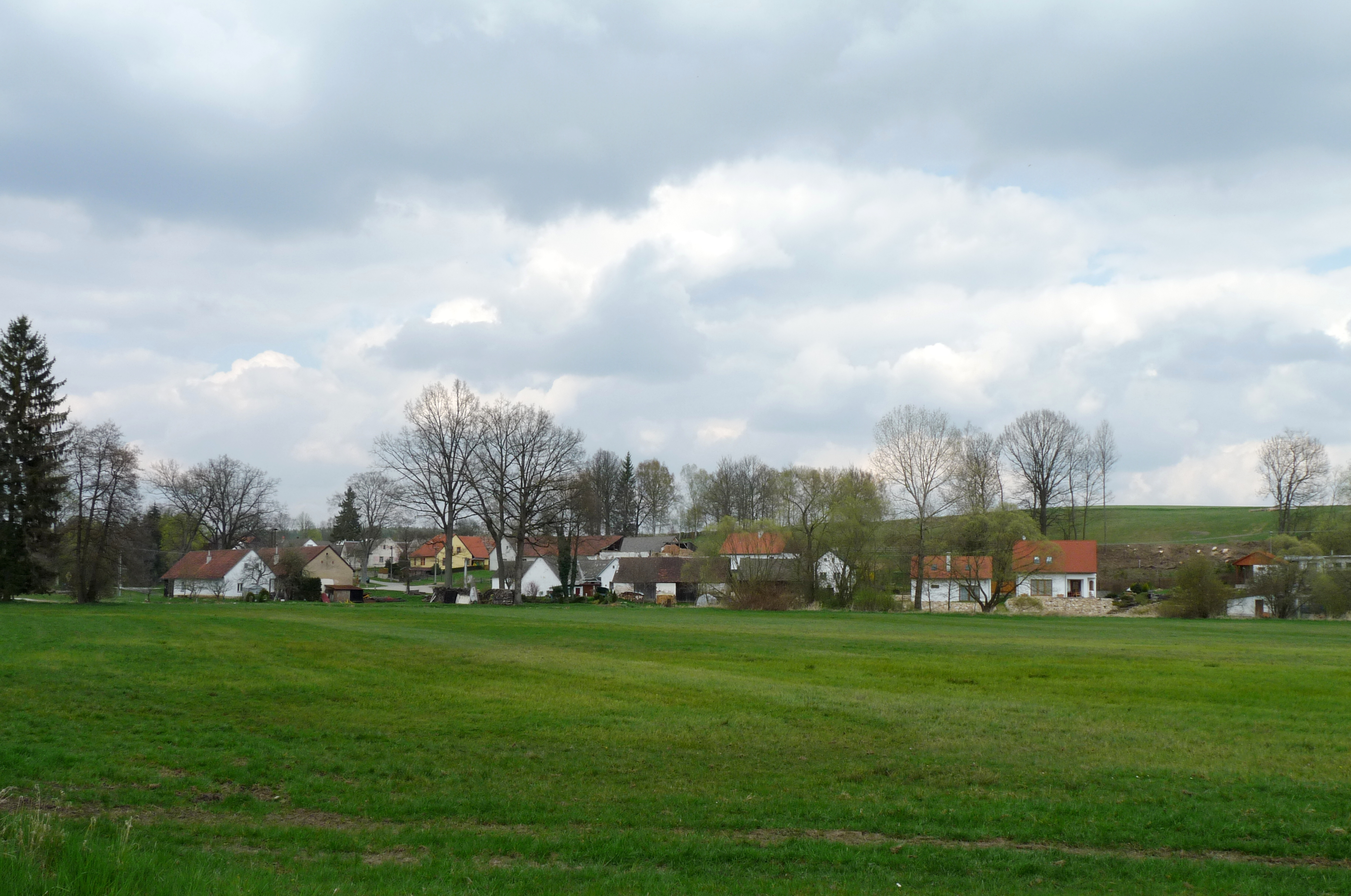 Centre of the village of Žďár, Jindřichův Hradec District, South Bohemia, Czech Republic.